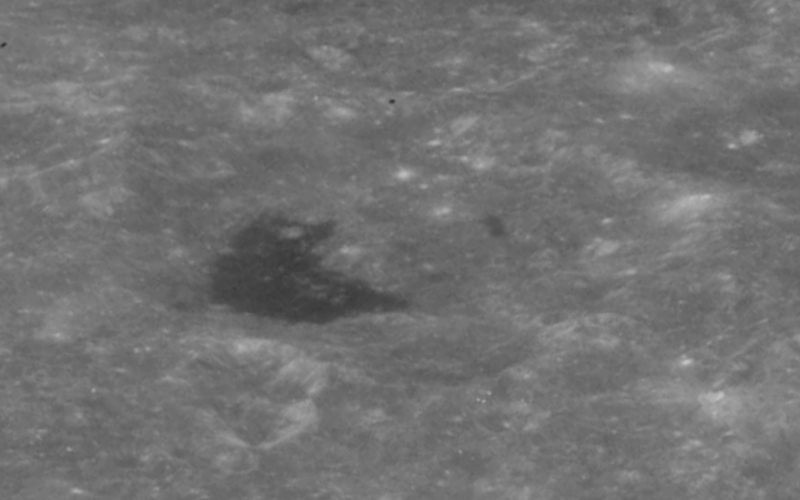 Oblique view of Bolyai crater, on the far side of the moon, facing southeast with a high sun angle. The dark patch is mare lava in the bottom of the crater.